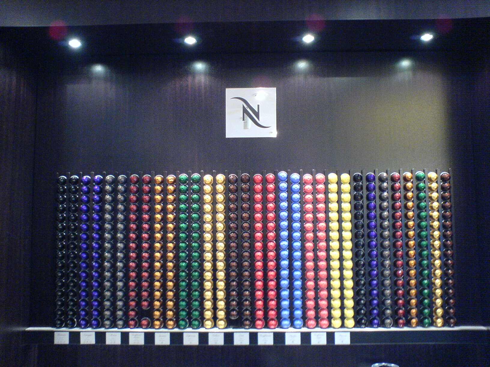 Nestlé Nescafé cans in a shop.